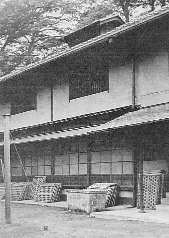 Imperial Cocoonery in 1950s